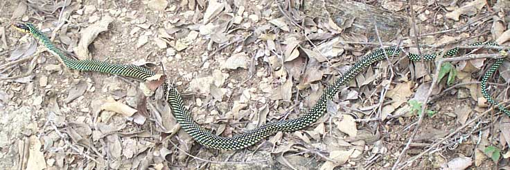 A Speckled Racer (Drymobius margaritiferus).